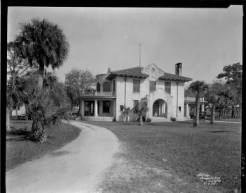 Clubhouse at Rocky Point Golf Club front and side facades Tampa, Fla; 1923. Courtesy, Tampa-Hillsborough County Public Library System.